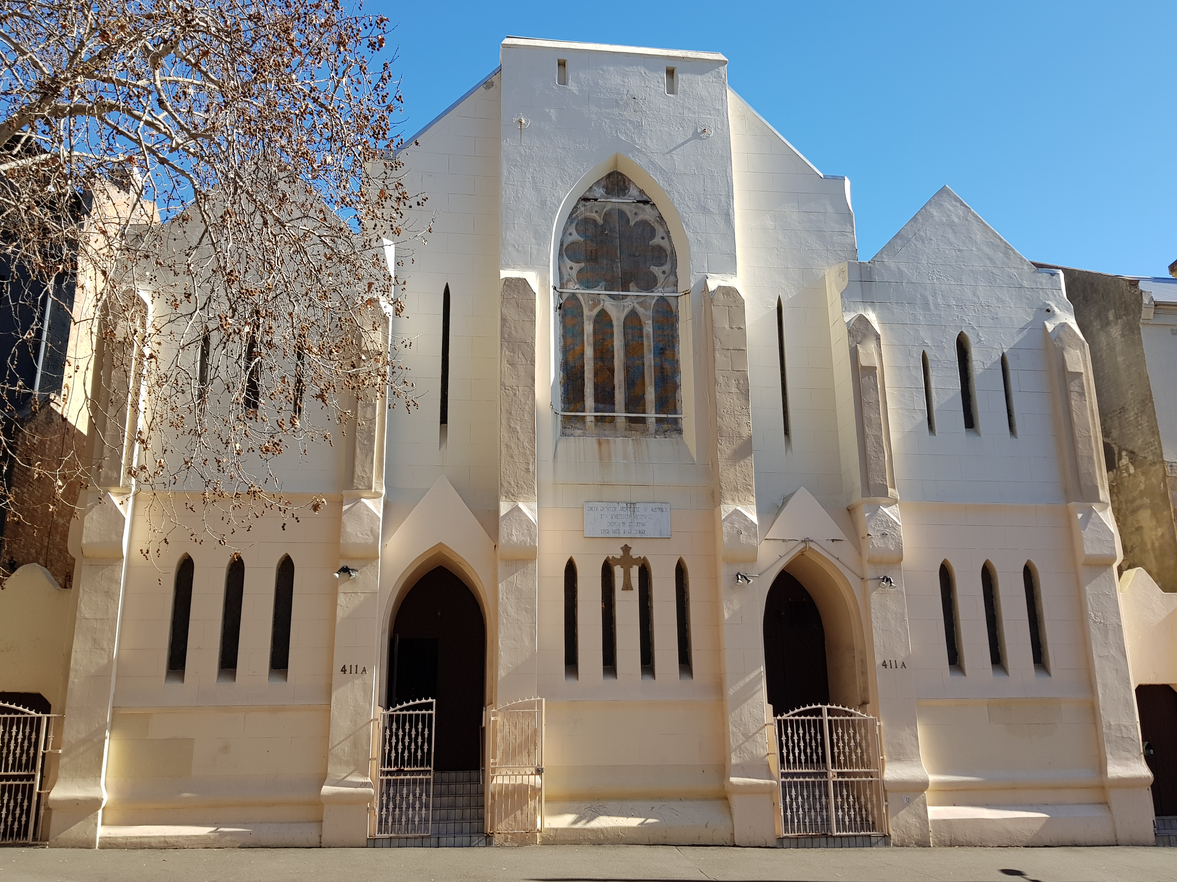 St Sophia Greek Orthodox Church, Taylor Square , Surry Hills